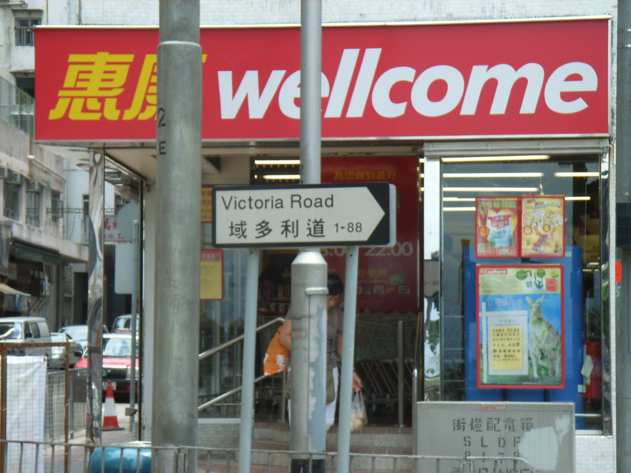 位於香港島的域多利道(Victoria Road)的東北端連接(Kennedy Town)堅尼地城的(Belcher's Street)卑路乍街(即是圖中的左方) Picture by KennethTom